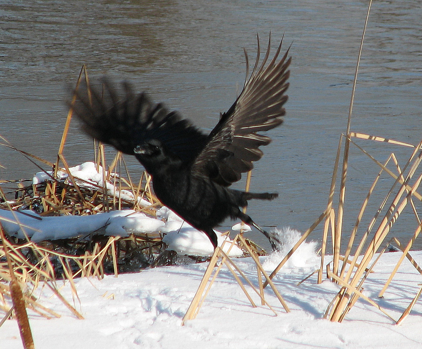 American Crow (Corvus brachyrhynchos), taking flight, Ottawa, Ontario